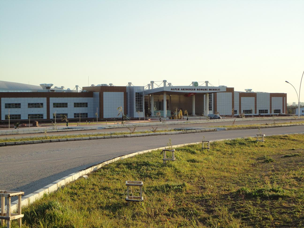 Alper Akınoğlu Congress Center in Adana